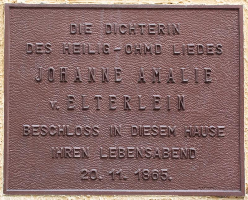 Commemorative Plaque: DIE DICHTERIN DES HEILIG-OHMD LIEDES JOHANNE AMALIE v. ELTERLEIN BESCHLOSS IN DIESEM HAUSE IHREN LEBENSABEND 20. 11. 1865. / Johanne Amalie v. Elterlein, author of the Heilig-Ohm Lied, died in this house on 20 Nov, 1865. (Schwarzenberg/Erzg., Germany, Obere Schloßstraße 10).